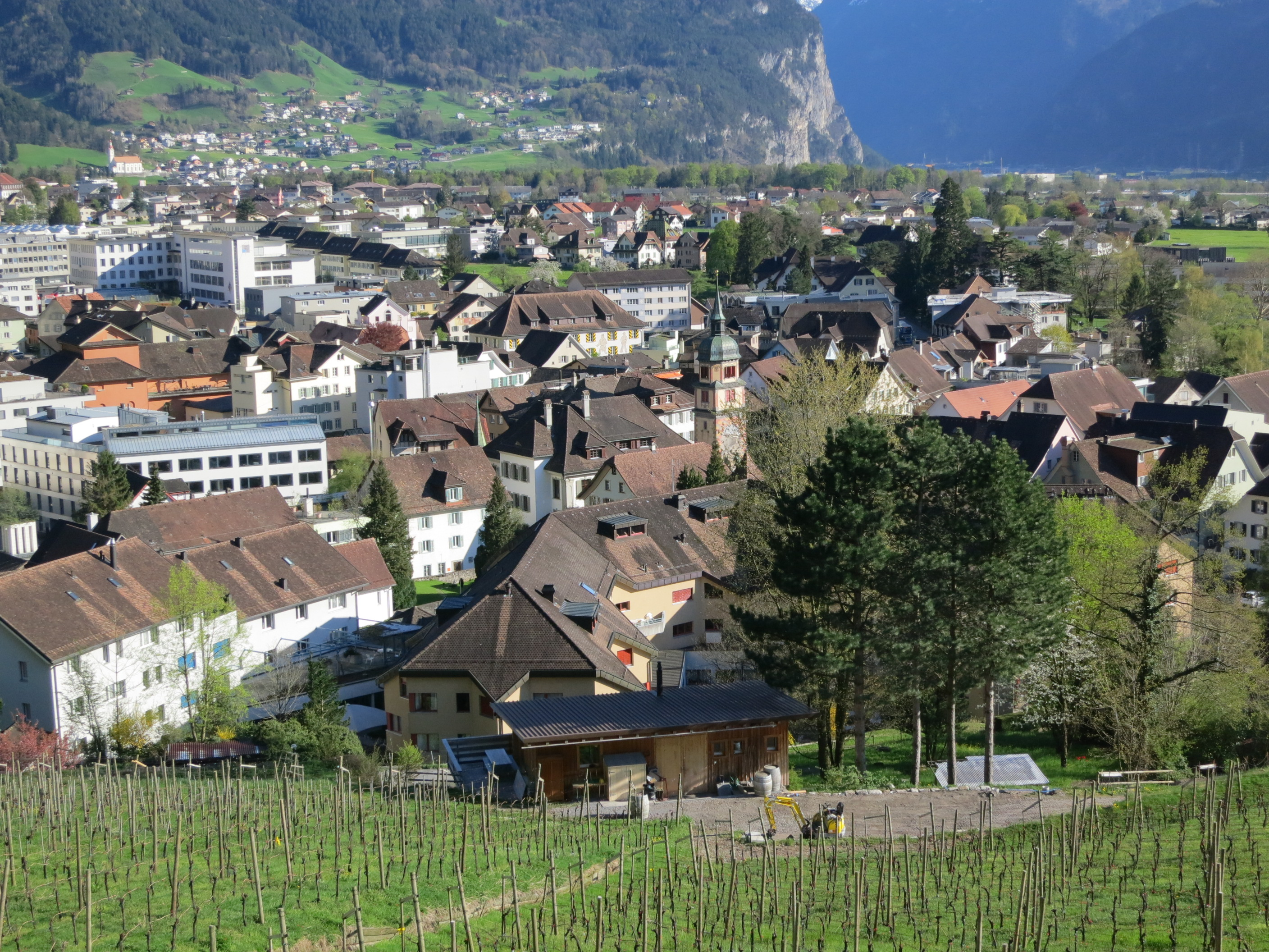 Ortskern vom Kapuzinerkloster, Altdorf UR, Schweiz